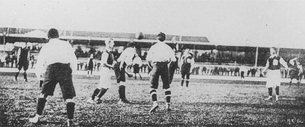 football game at the 1900 Olympic Games photography, reproduction, no restrictions on use